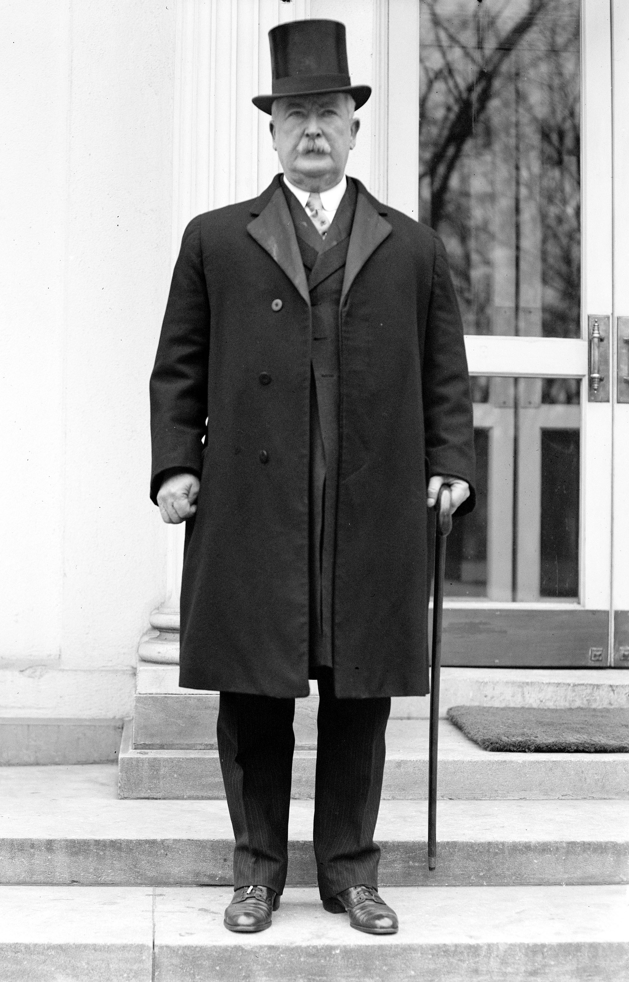 Emmet O'Neal, Governor of Alabama